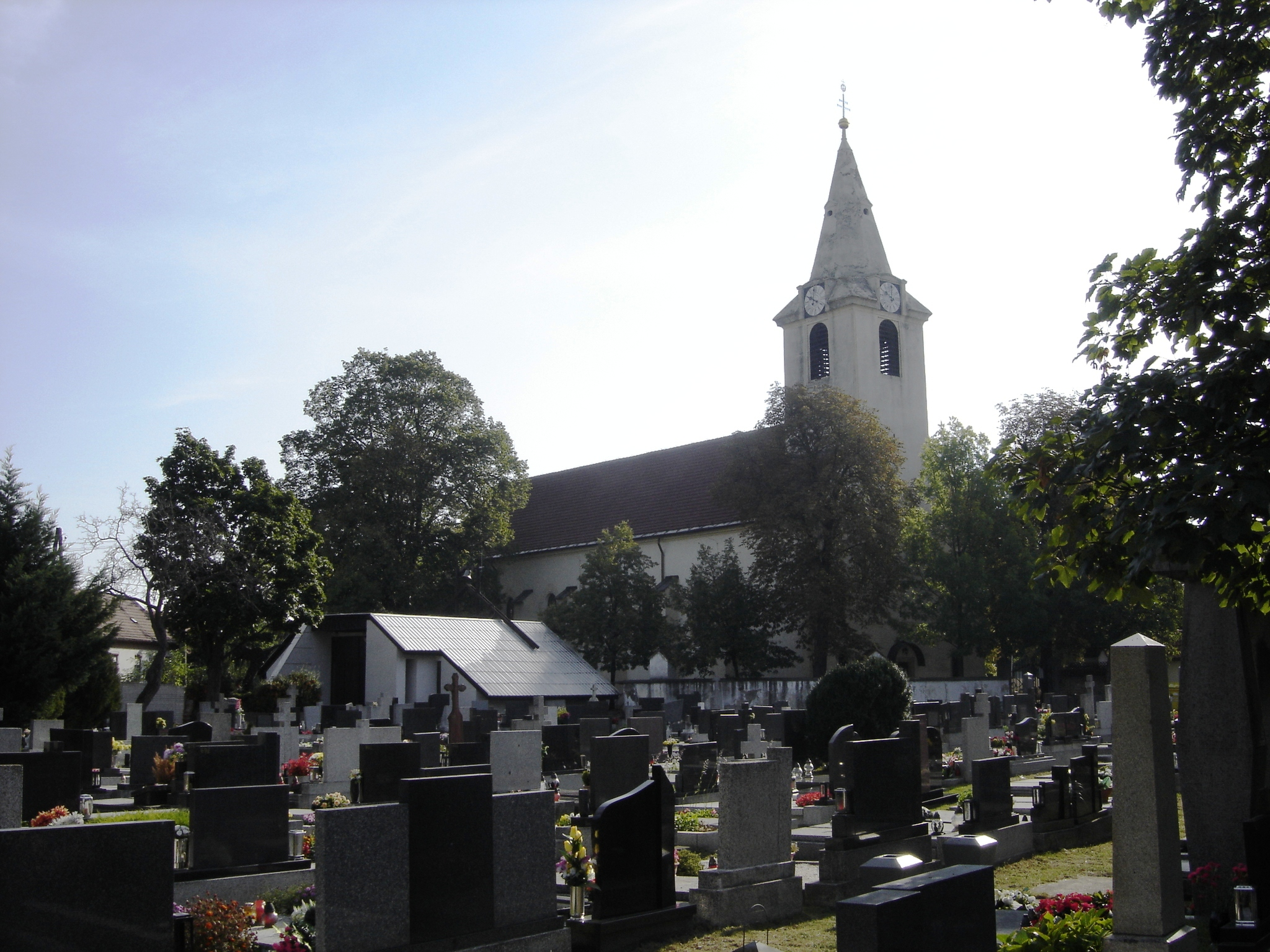 Vajnory, Bratislava, Slovakia